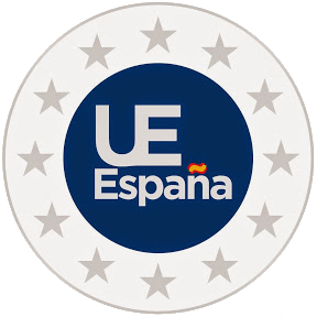 Logo of the Permanent Representation of Spain to the European Union